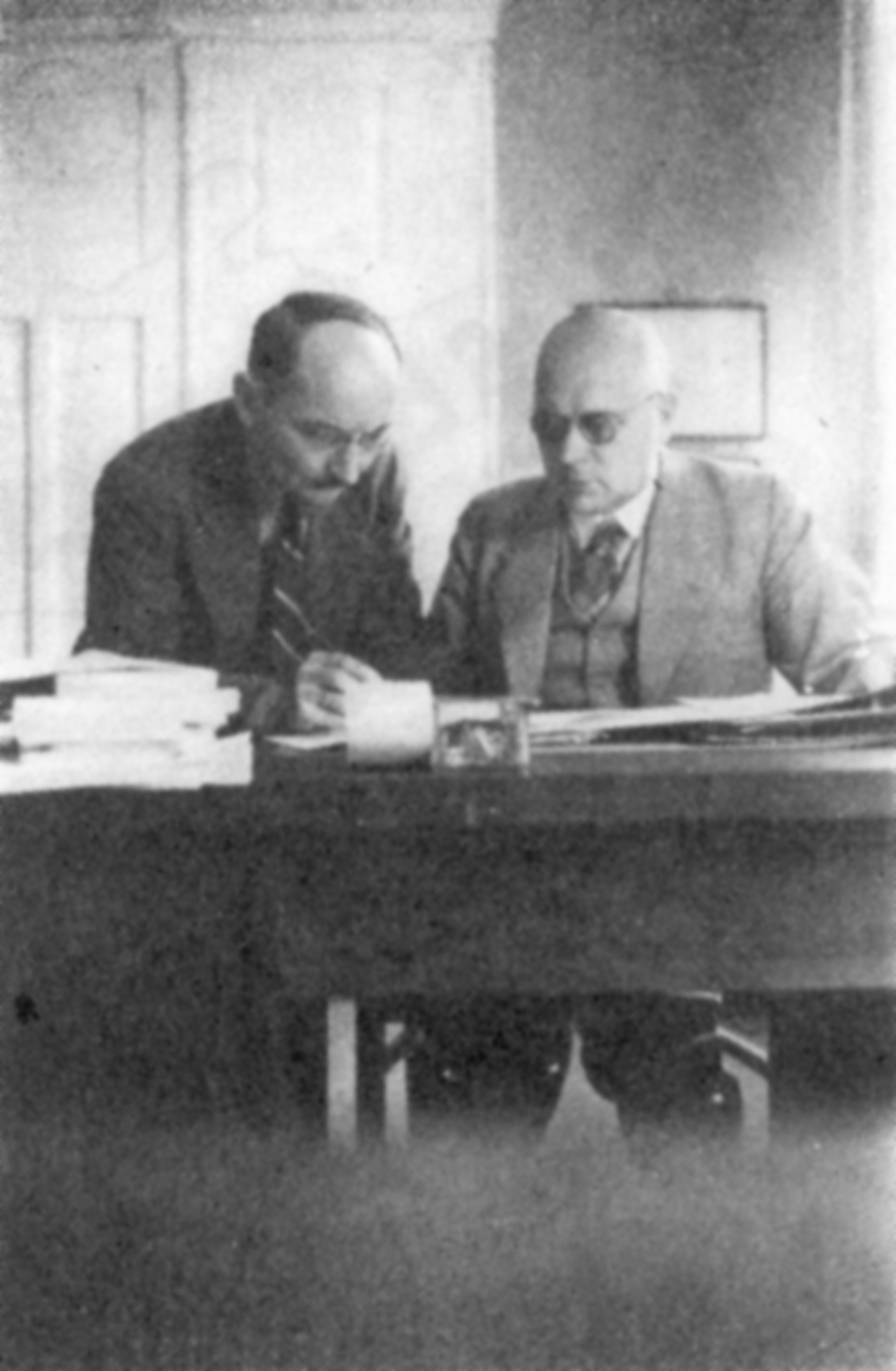 From the left: Józef Henke, the deputy director, and Piotr Miętkiewicz, the director of Polish High School in Bytom.